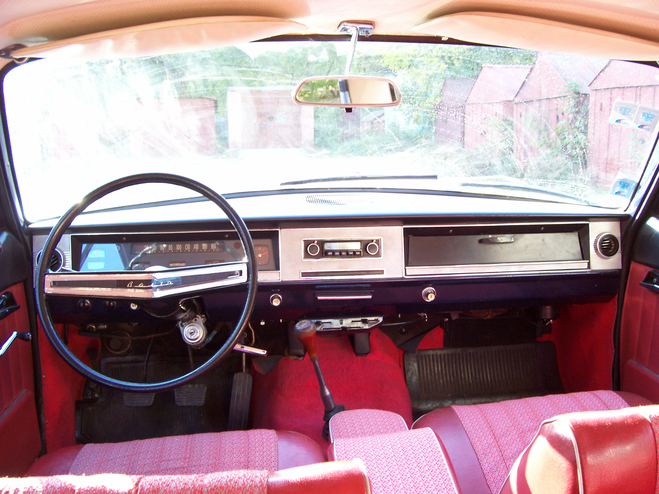 '74 M24 Volga. Front bench seat. Taken October, 27, 2007. By Stanislav Alexeyev aka DL24.